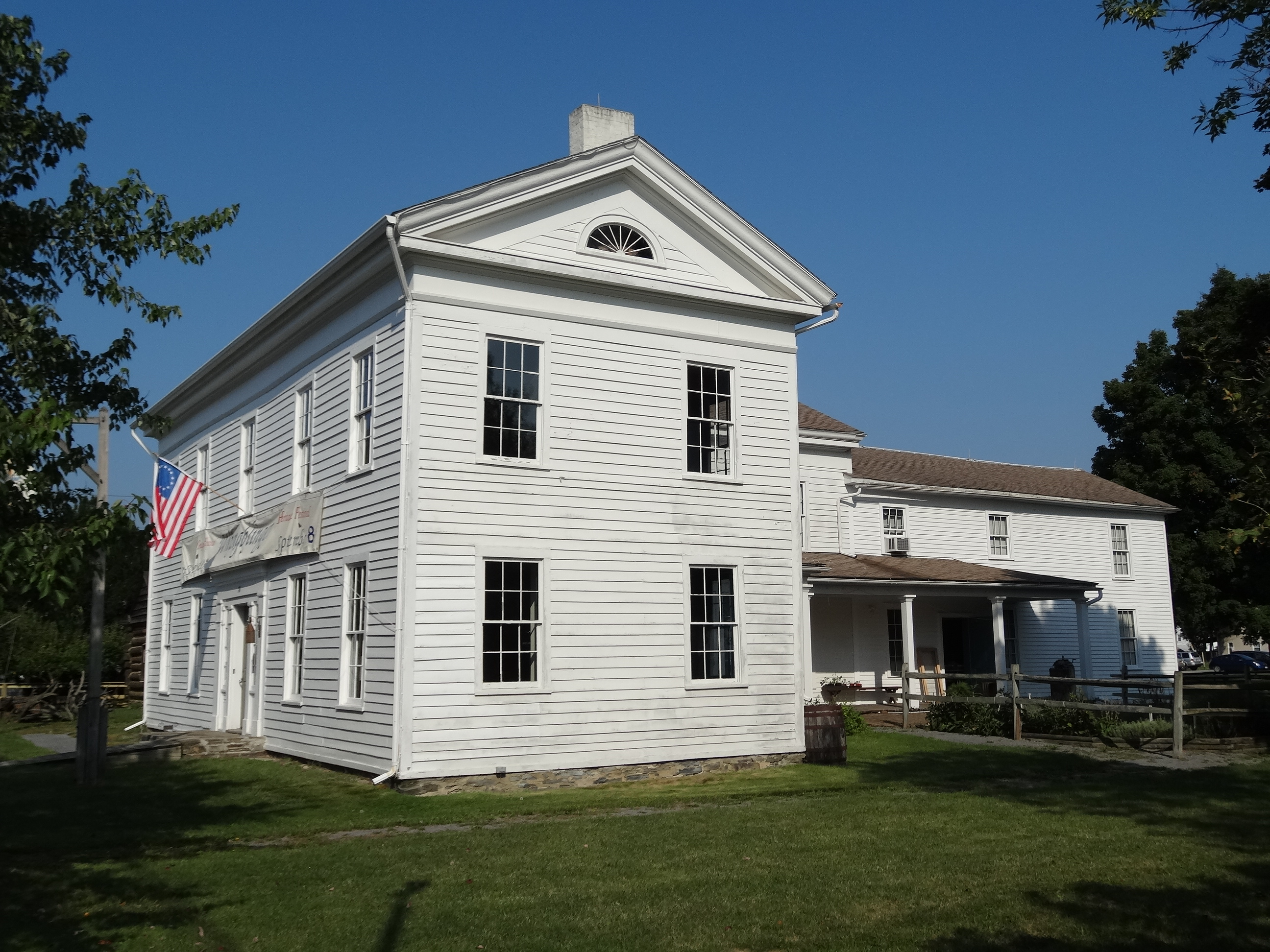 Jenning's Tavern